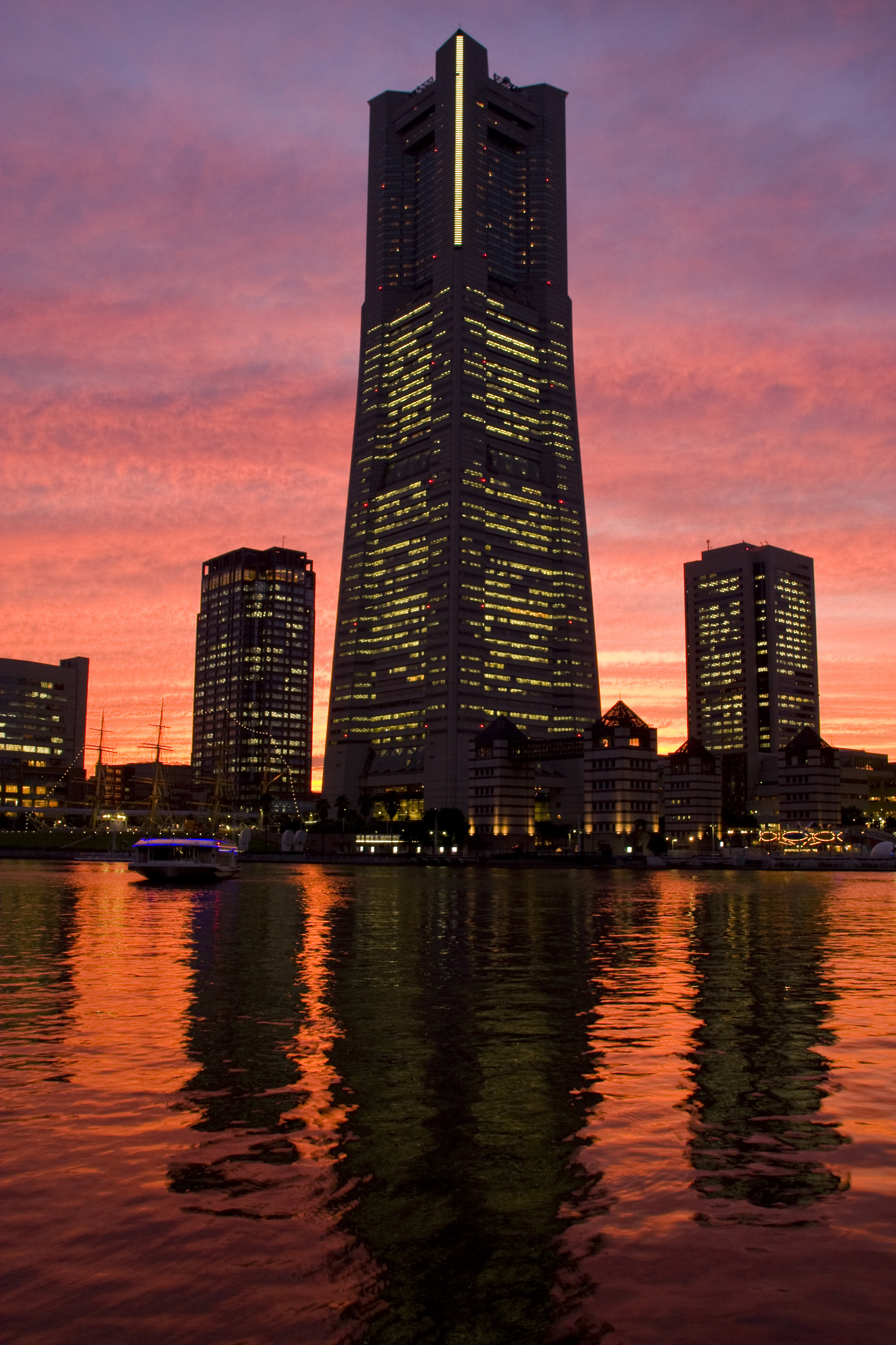 Minatomirai, Yokohama Japan See where this picture was taken. ?